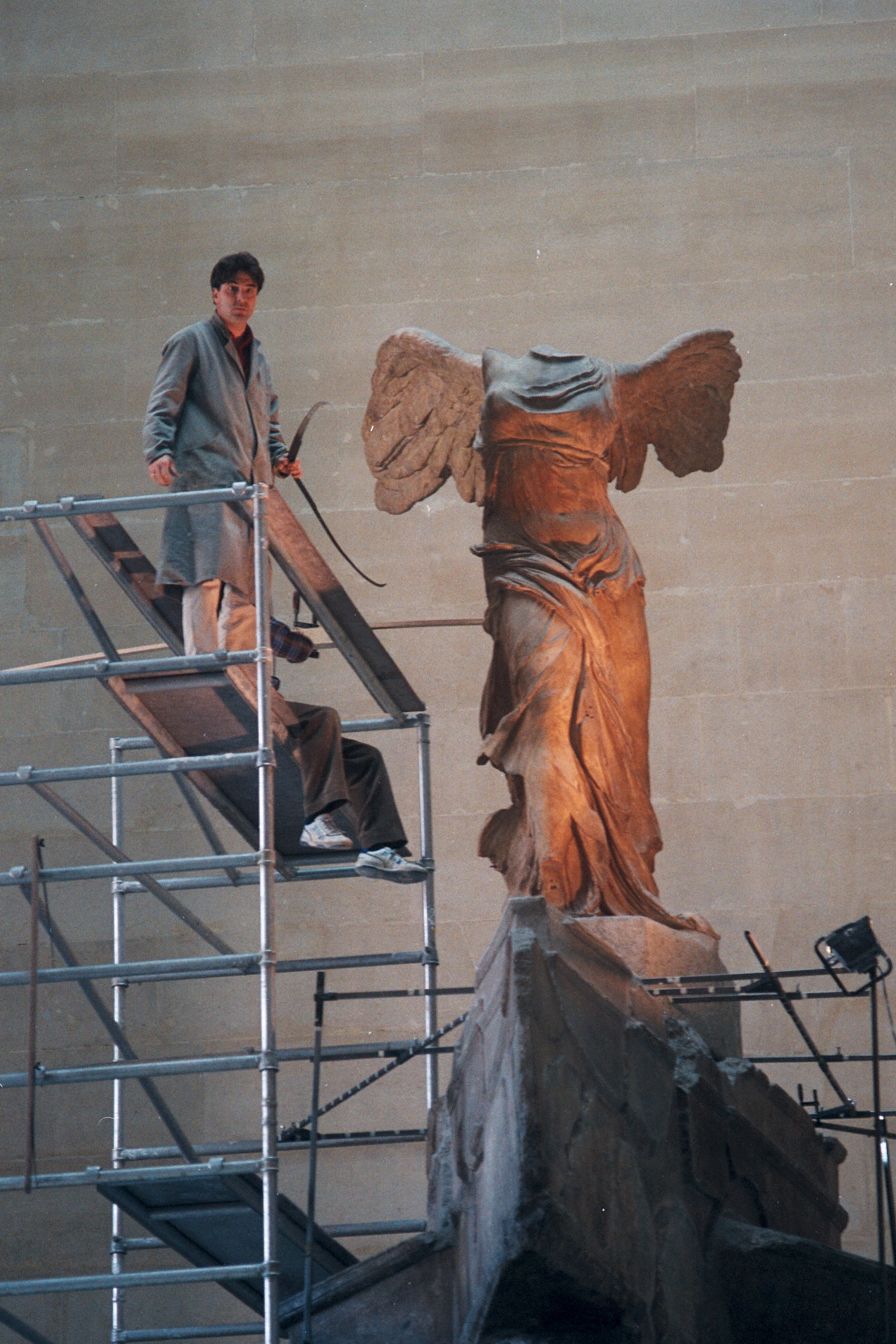 Restauration de la Victoire de Samothrace au Louvre